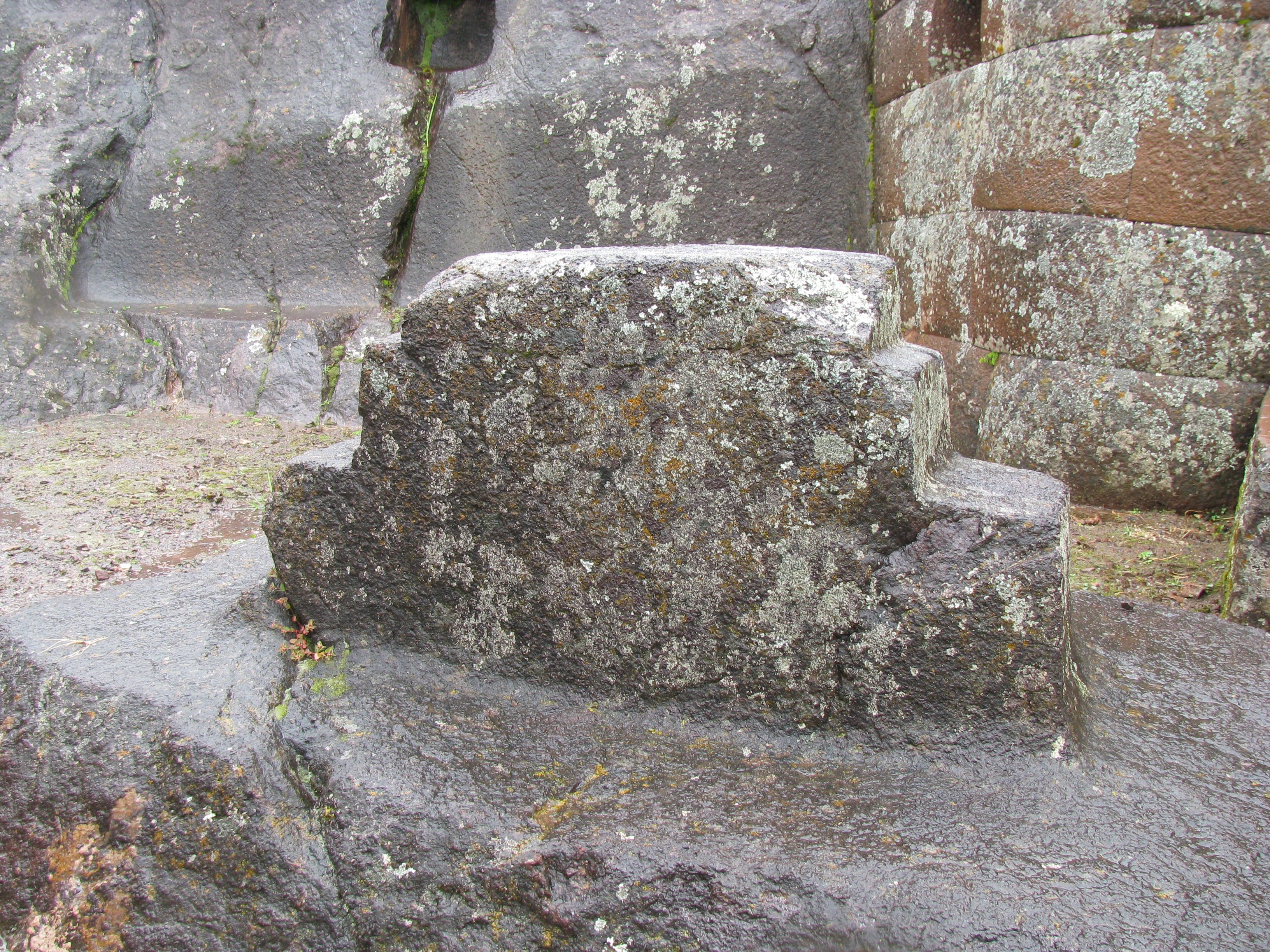 Sun_Temple_at_Pisac